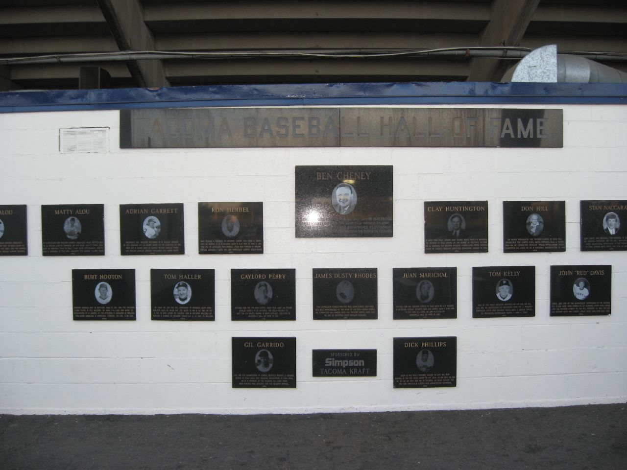 Tacoma Rainiers Hall of fame